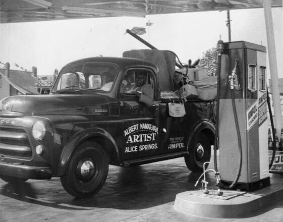 Albert Namatjira refuelling for a trip to Alice Springs. Ampol branding is visible on the car itself as well as the bowser. Dodge B Series pickup truck, made 1948-53.